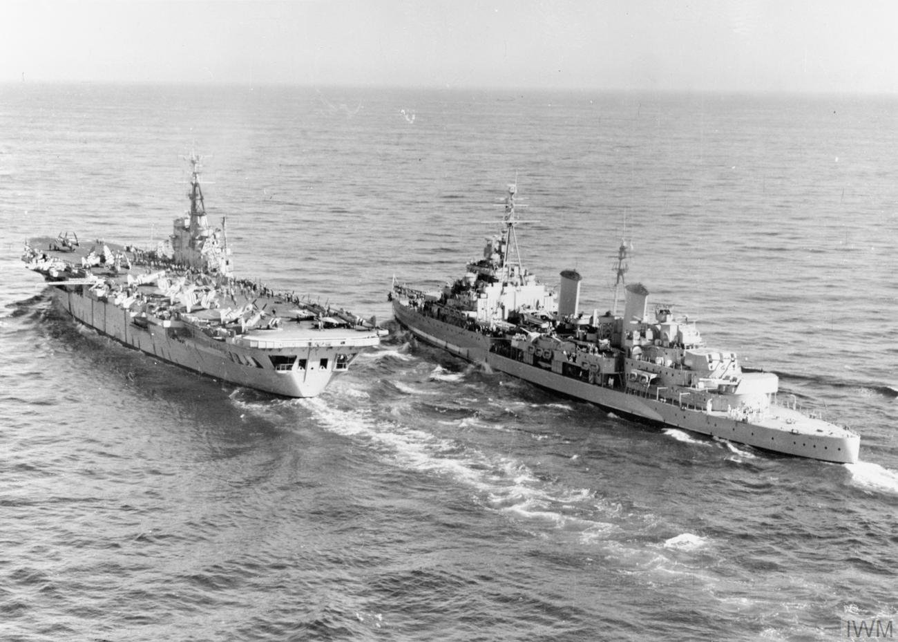 The Royal Navy light cruiser HMS Belfast (C35) approaching the aircraft carrier HMS Ocean (R68) off Korea, prior to the transfer of Rear Admiral Alan Kenneth Scott-Moncrieff, Flag Officer, Second in Command, Far East Station from his flagship Belfast to Ocean to observe air operations against targets in north-west Korea. Ocean was deployed to Korea from May to October 1952.